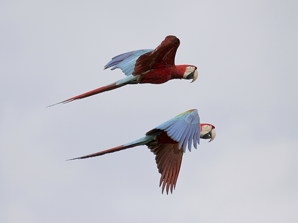 Two Red-and-green Macaws (also known as the Green-winged Macaws) at Manu National Park, Peru.